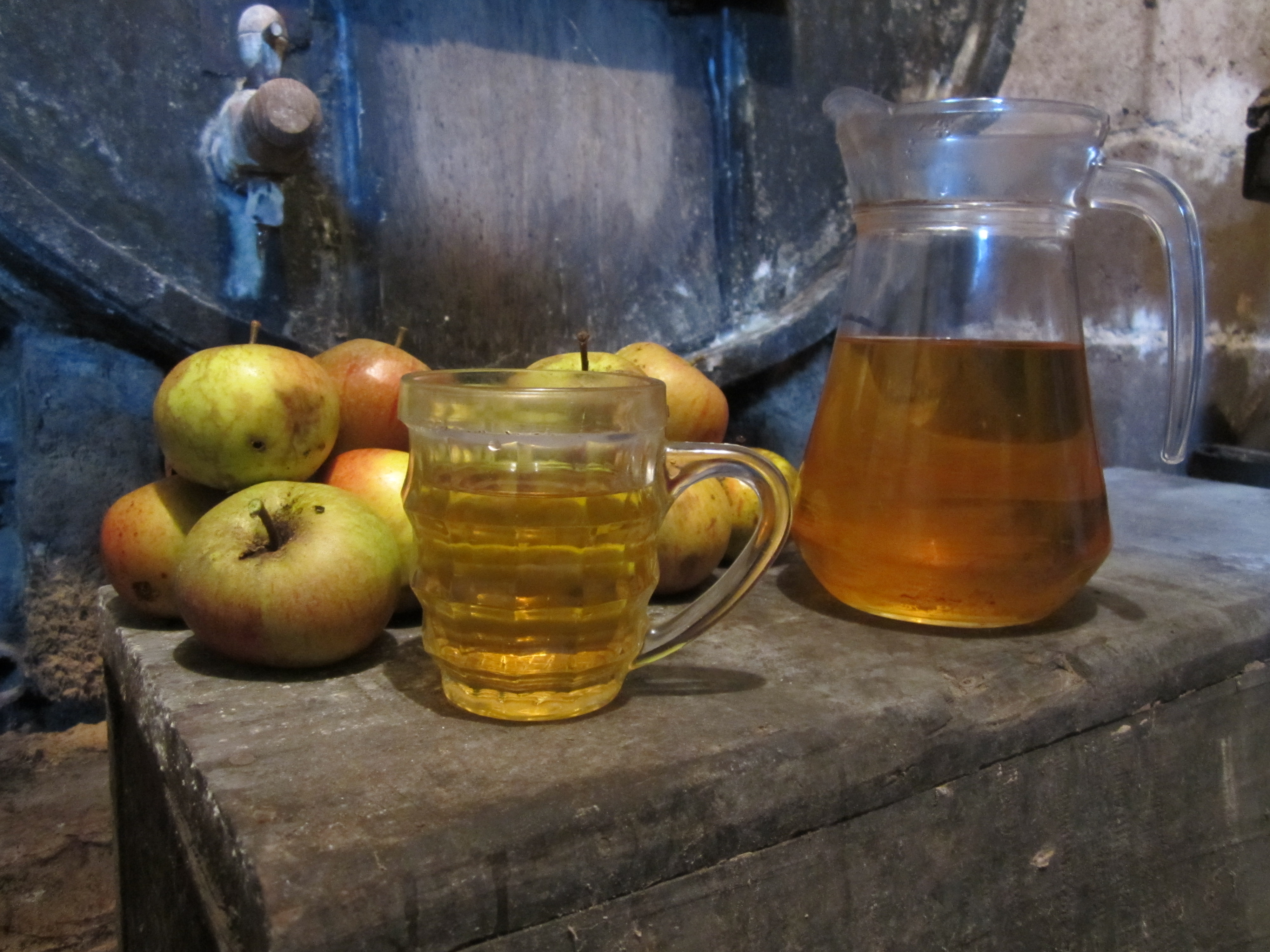 A pitcher and a mug of dry cider next to a oak barrel in a Normandy cellar